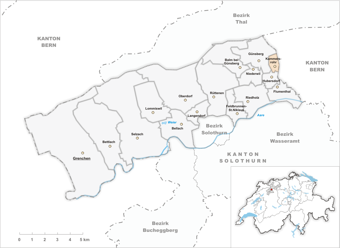 Municipality Kammersrohr